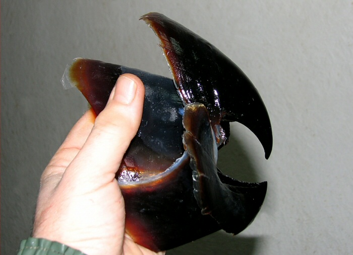 Beak of the Colossal squid Mesonychoteuthis hamiltoni, Amundsen Sea, Antarctica